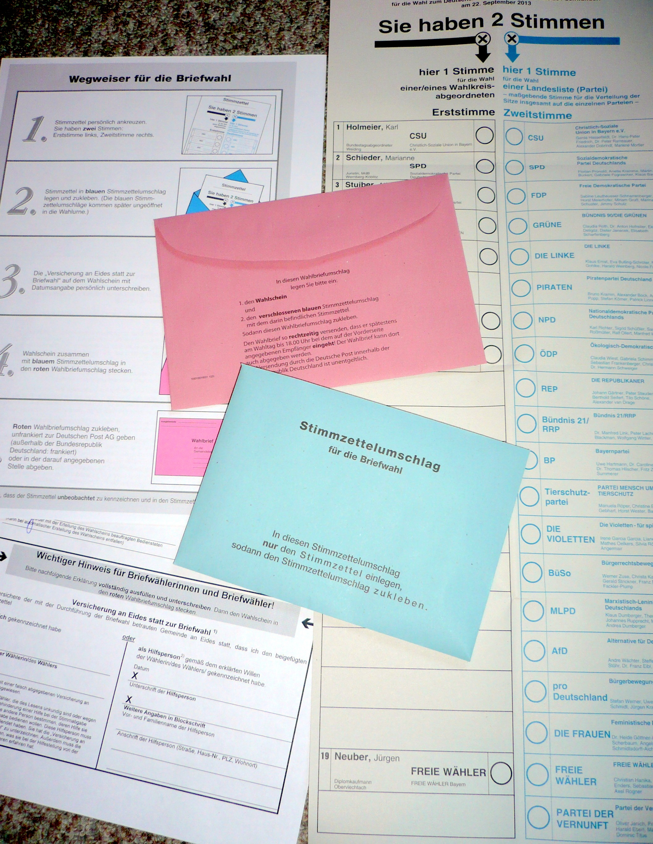 Postal voting ballot and envelopes for the German federal election, 2013